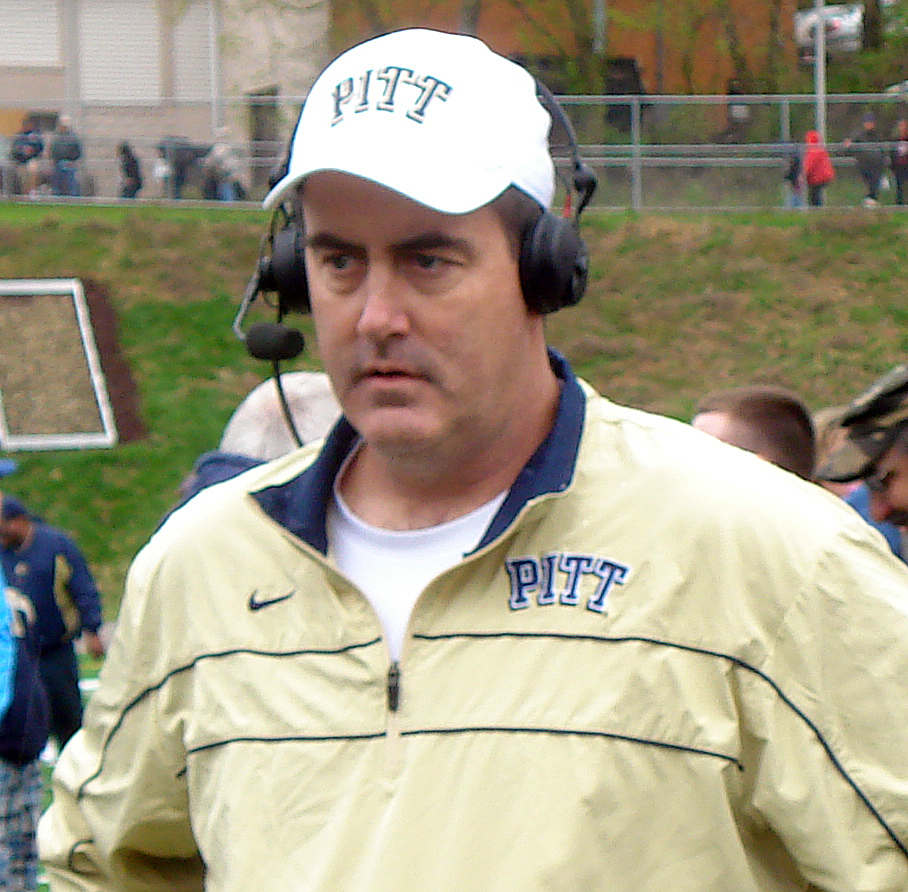 Pittsburgh Panthers head coach, Paul Chryst, at the conclusion of his first Spring Game as head coach.